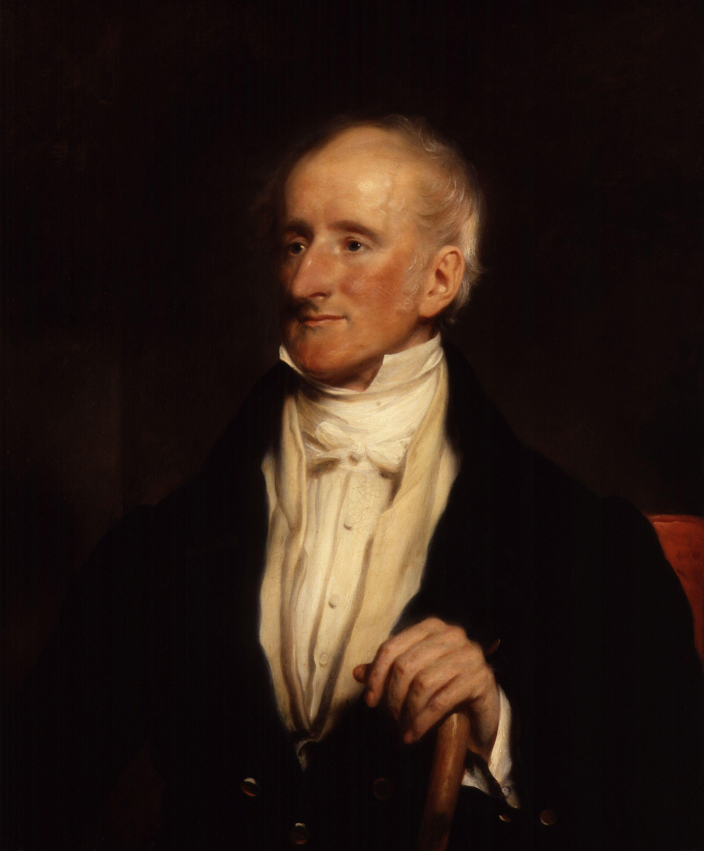 Sir Francis Burdett, 5th Bt, by Sir Martin Archer Shee (died 1850), given to the National Portrait Gallery, London in 1876. Burdett (25 January 1770 – 23 January 1844) was an English reformist politician, the son of Francis Burdett and his wife Eleanor, daughter of William Jones of Ramsbury manor, Wiltshire, and grandson of Sir Robert Burdett, Bart. All images in this batch have been confirmed as author died before 1939 according to the official death date listed by the NPG.